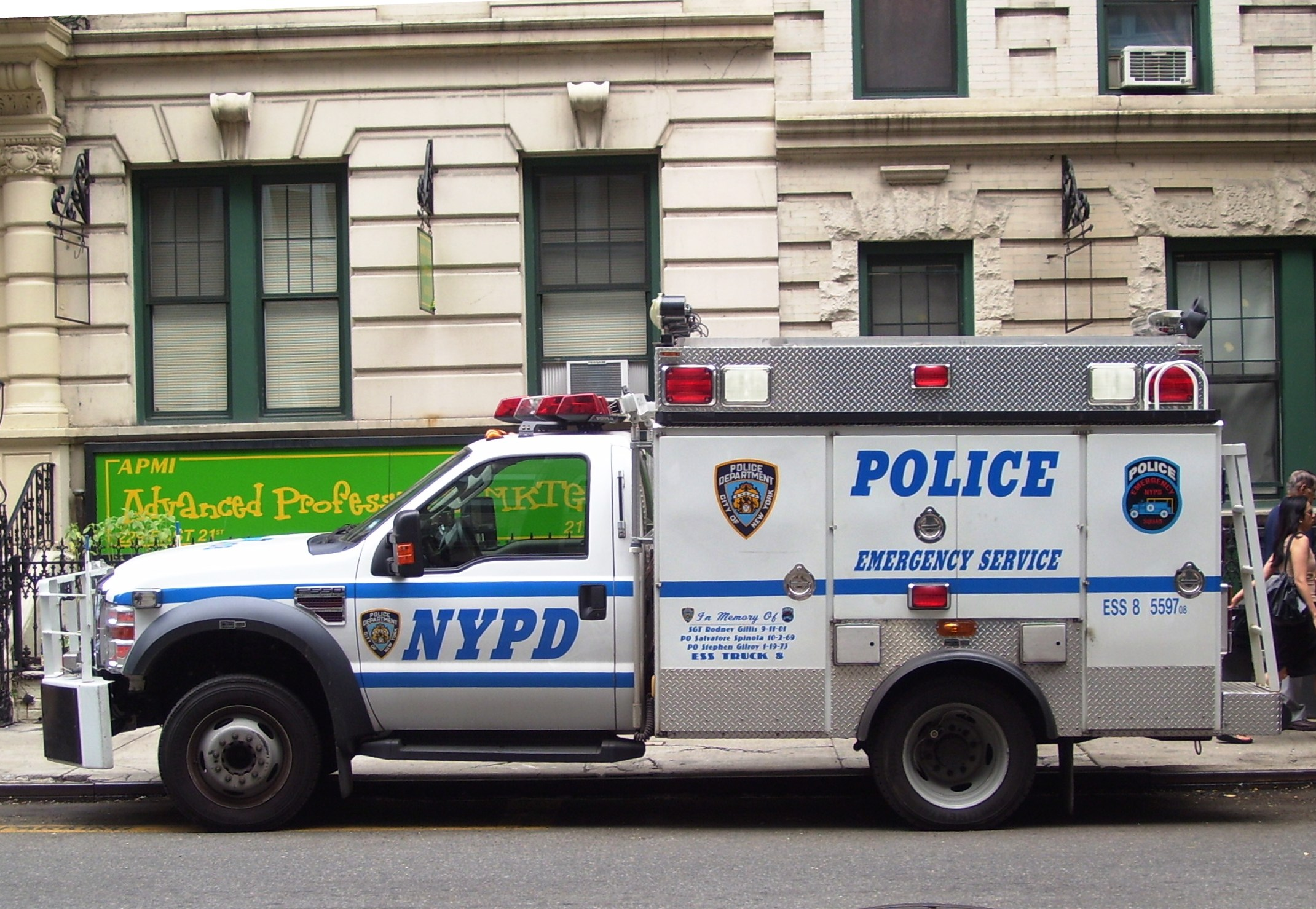 Emergency Services Unit of the New York Police Department